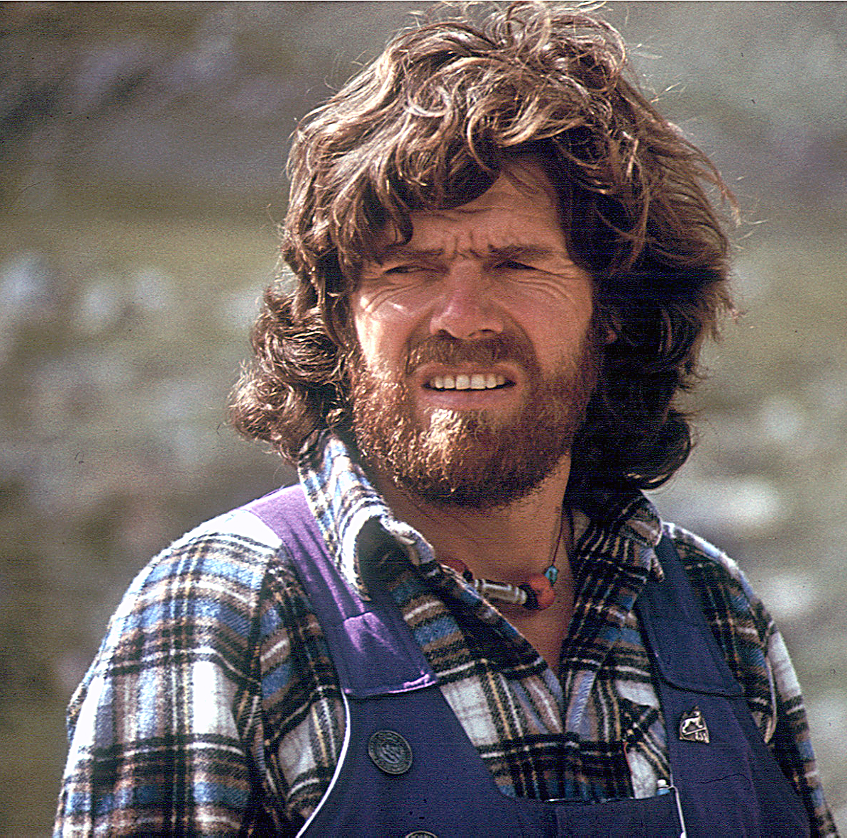 Reinhold Messner in 1985 in Pamir Mountains.